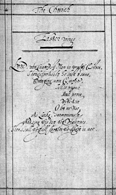 A fair copy of the manuscript of George Herbert's The Temple written for presentation to the Cambridge University press in 1633